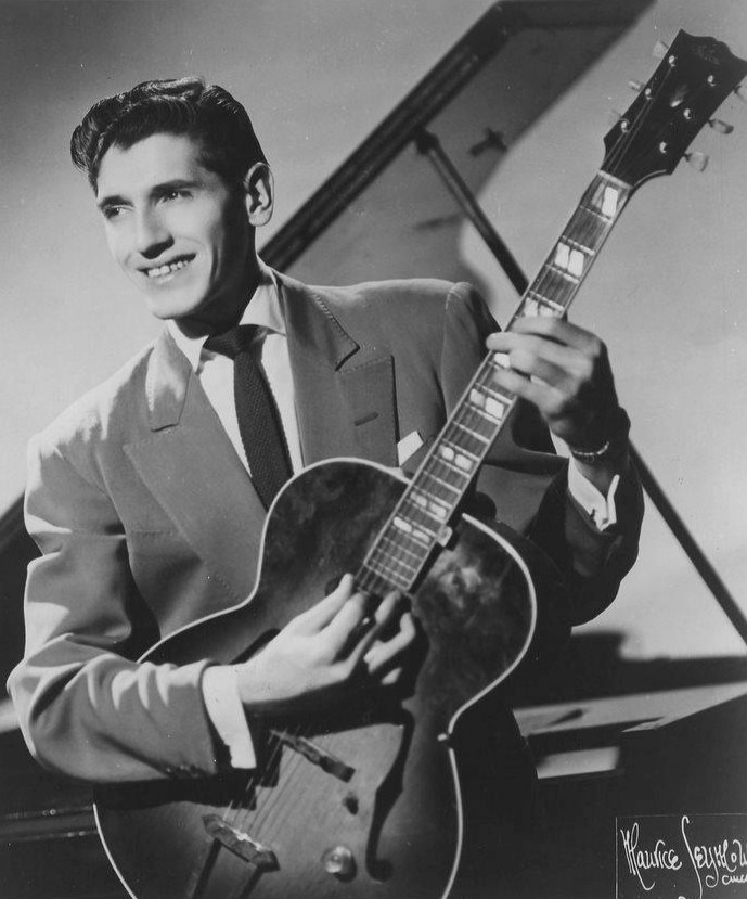 Photo of vocalist and guitarist Frank D'Rone.